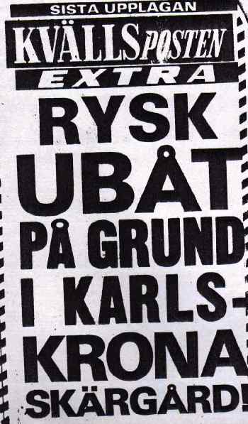 Front page of Swedish Newspaper October 27 1981 (extra edition)